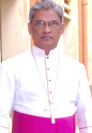 bishop